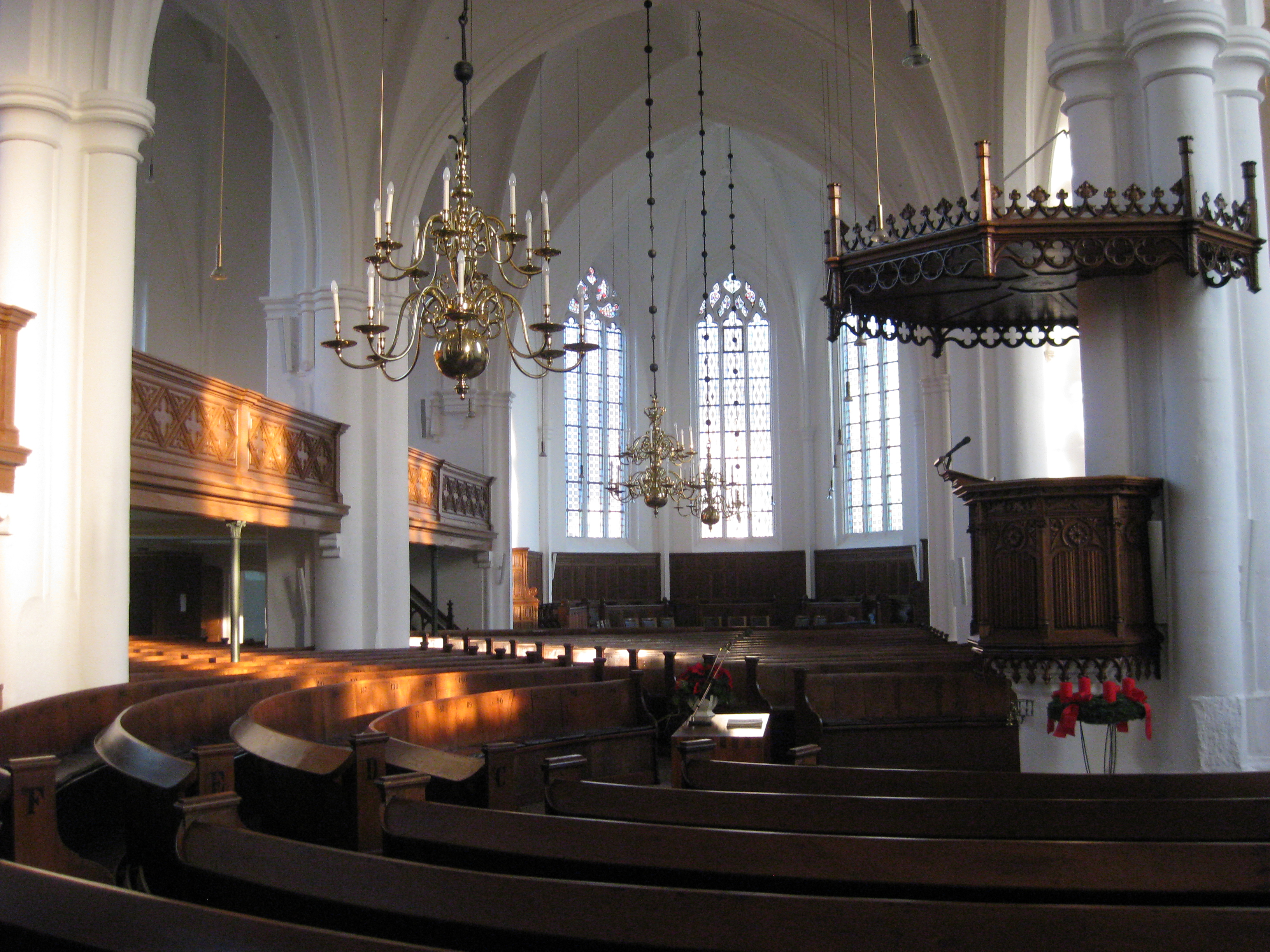 Evangelical Reformed parish church in Schüttorf, view of the interior